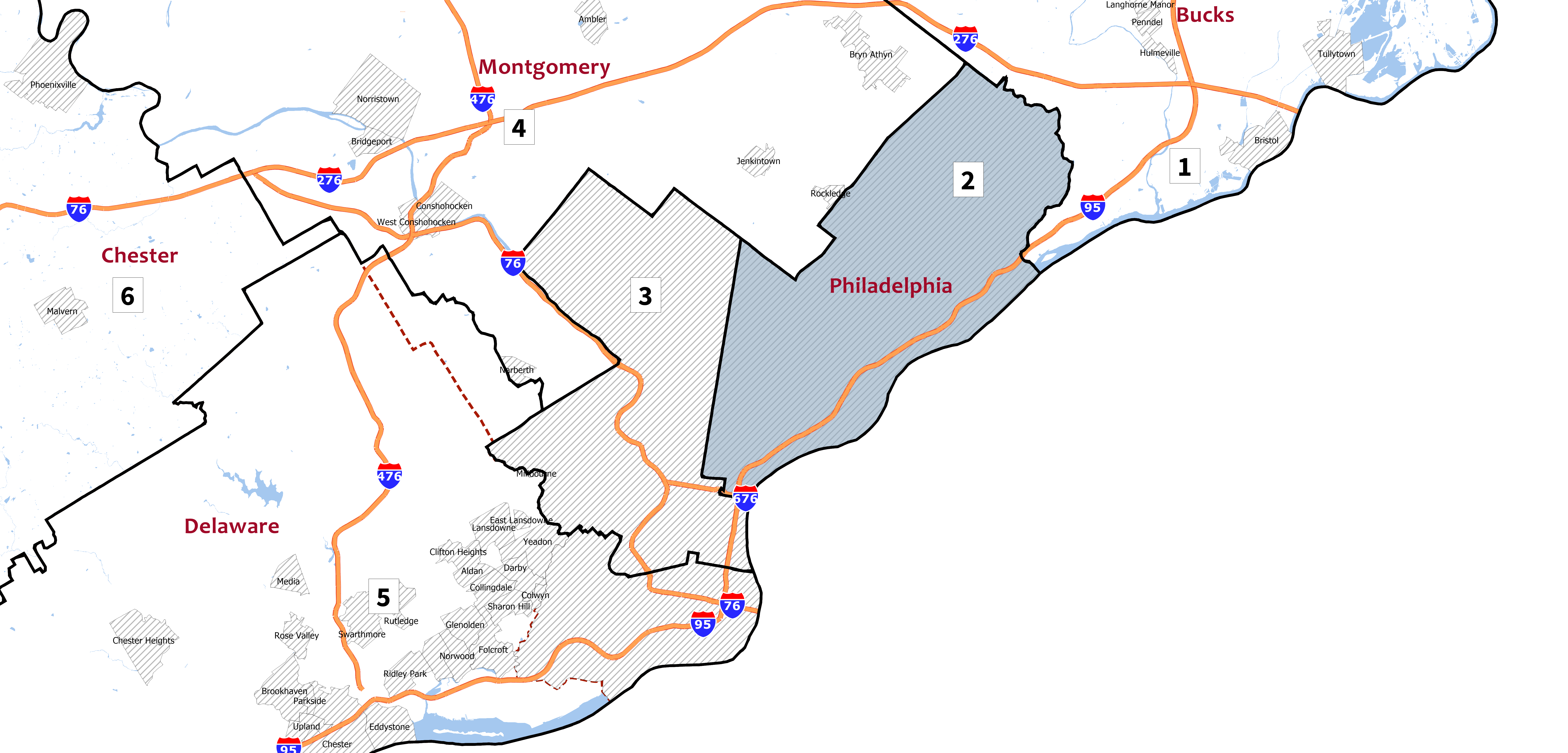 Pennsylvania congressional district 2